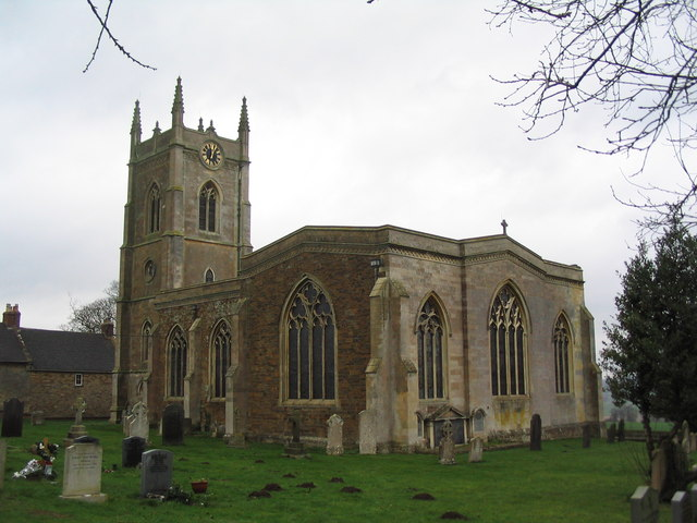 St Peter's parish church, East Carlton, Northamptonshire, seen from the southeast